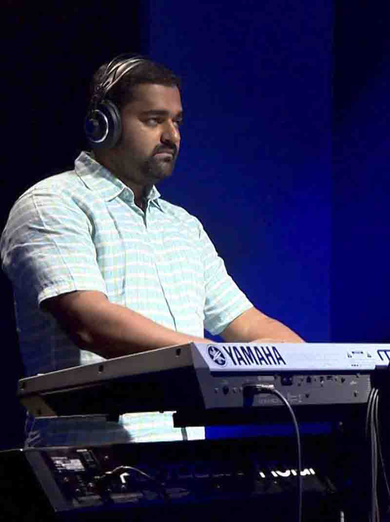 In a stage performance